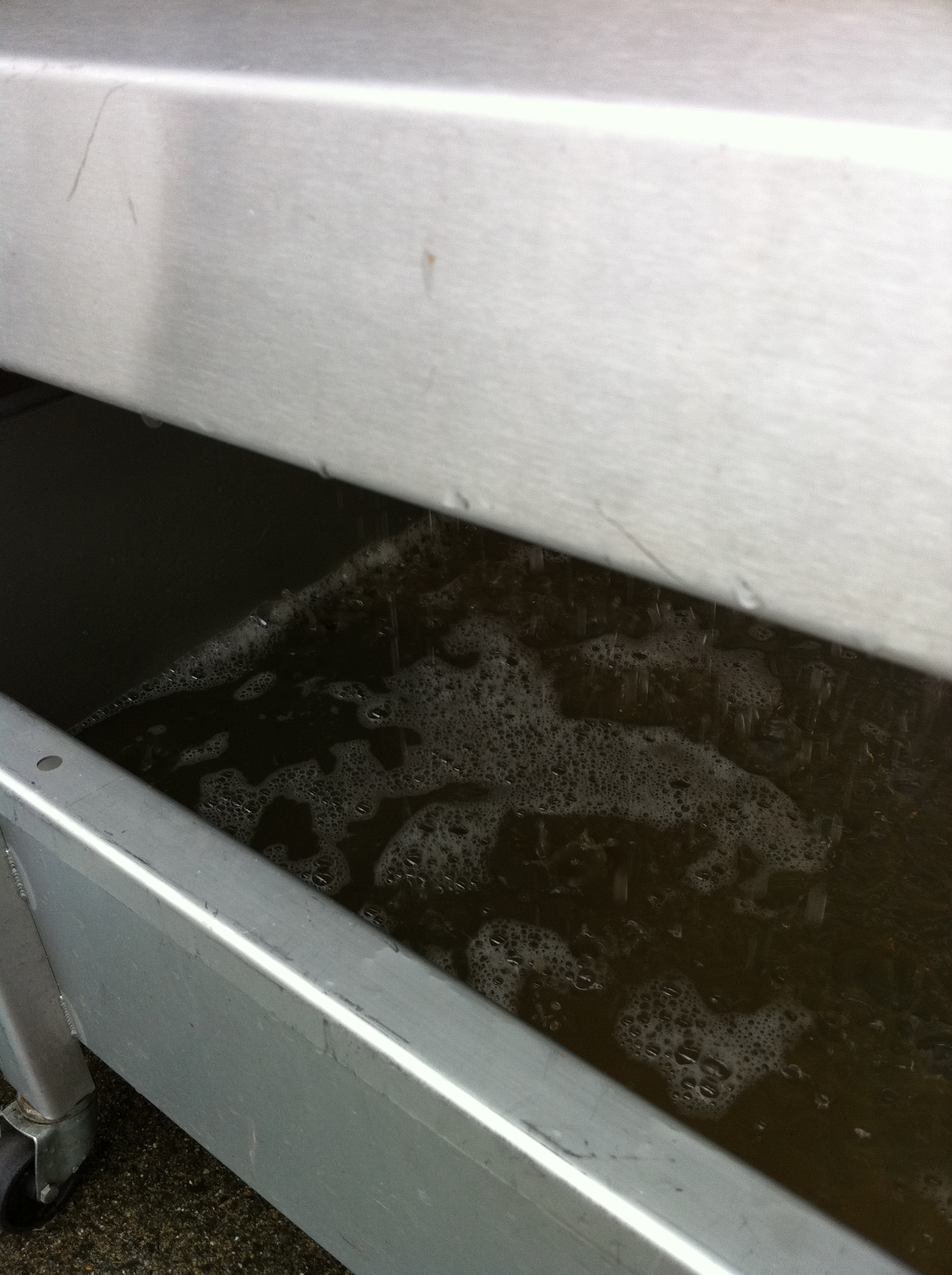 Free run juice in the press pan. This juice is the product comes from the grapes own weight as they are loaded into the wine press.